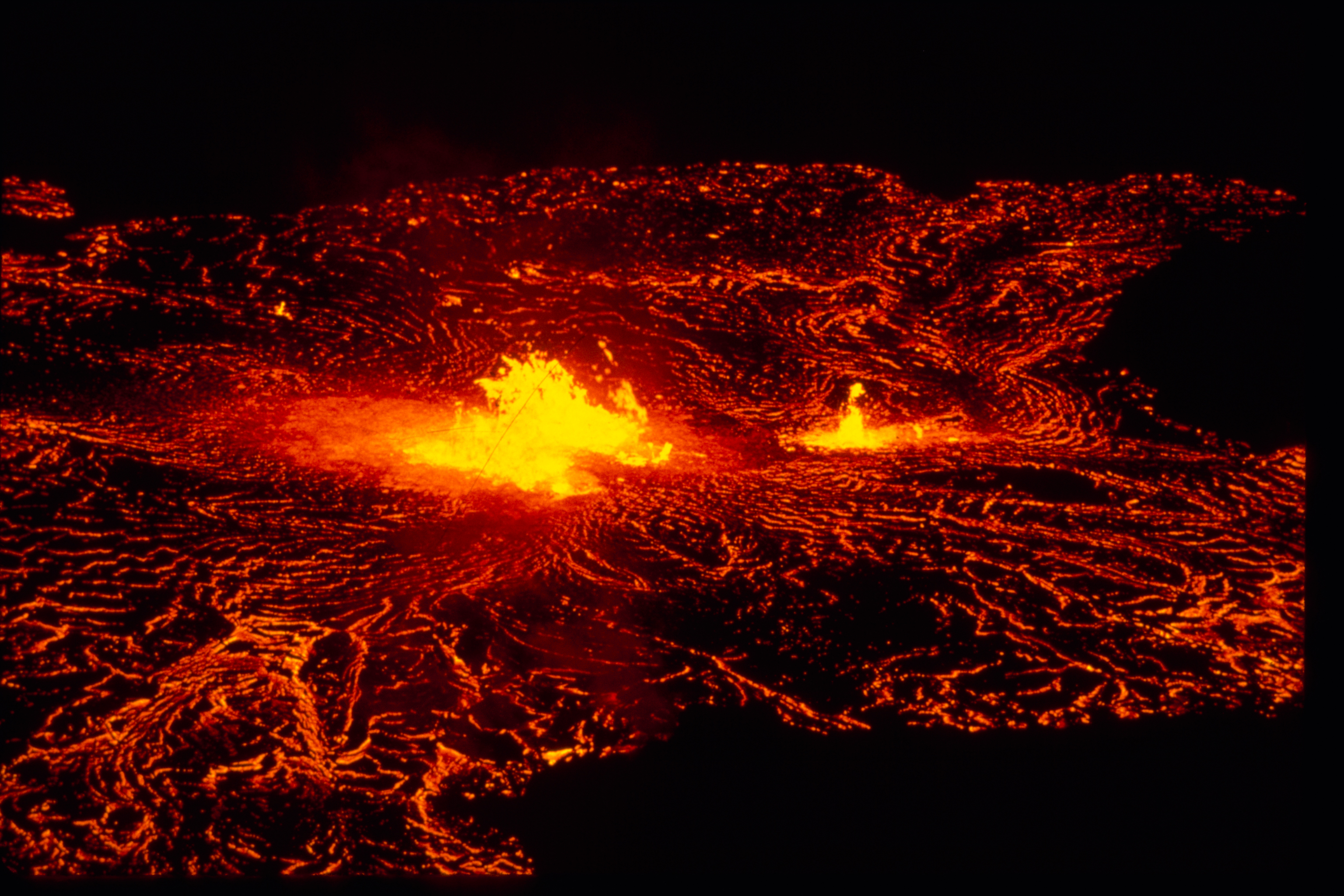 Location Hawai'i Volcanoes National Park Description Hawai‘i Volcanoes National Park displays the results of 70 million years of volcanism, migration, and evolution -- processes that thrust a bare land from the sea and clothed it with unique ecosystems, and a distinct human culture. The park highlights two of the world's most active volcanoes, and offers insights on the birth of the Hawaiian Islands and views of dramatic volcanic landscapes.